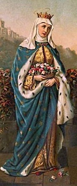 Elisabeth of Aragon, Saint Queen of Portugal